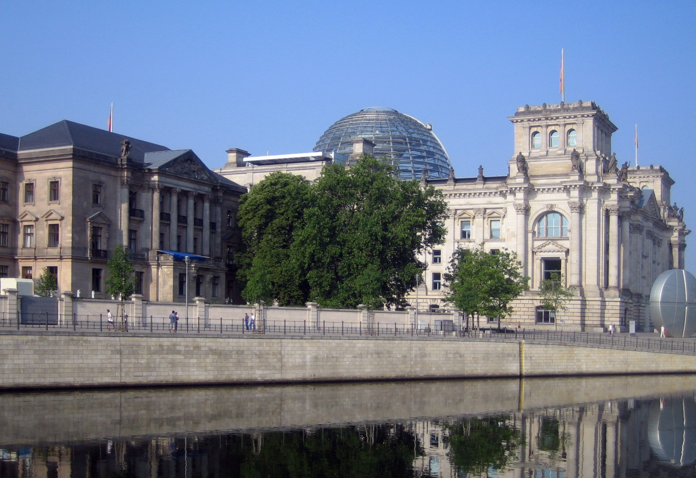 Berlin, Residence of the chairman of German parliament (left).